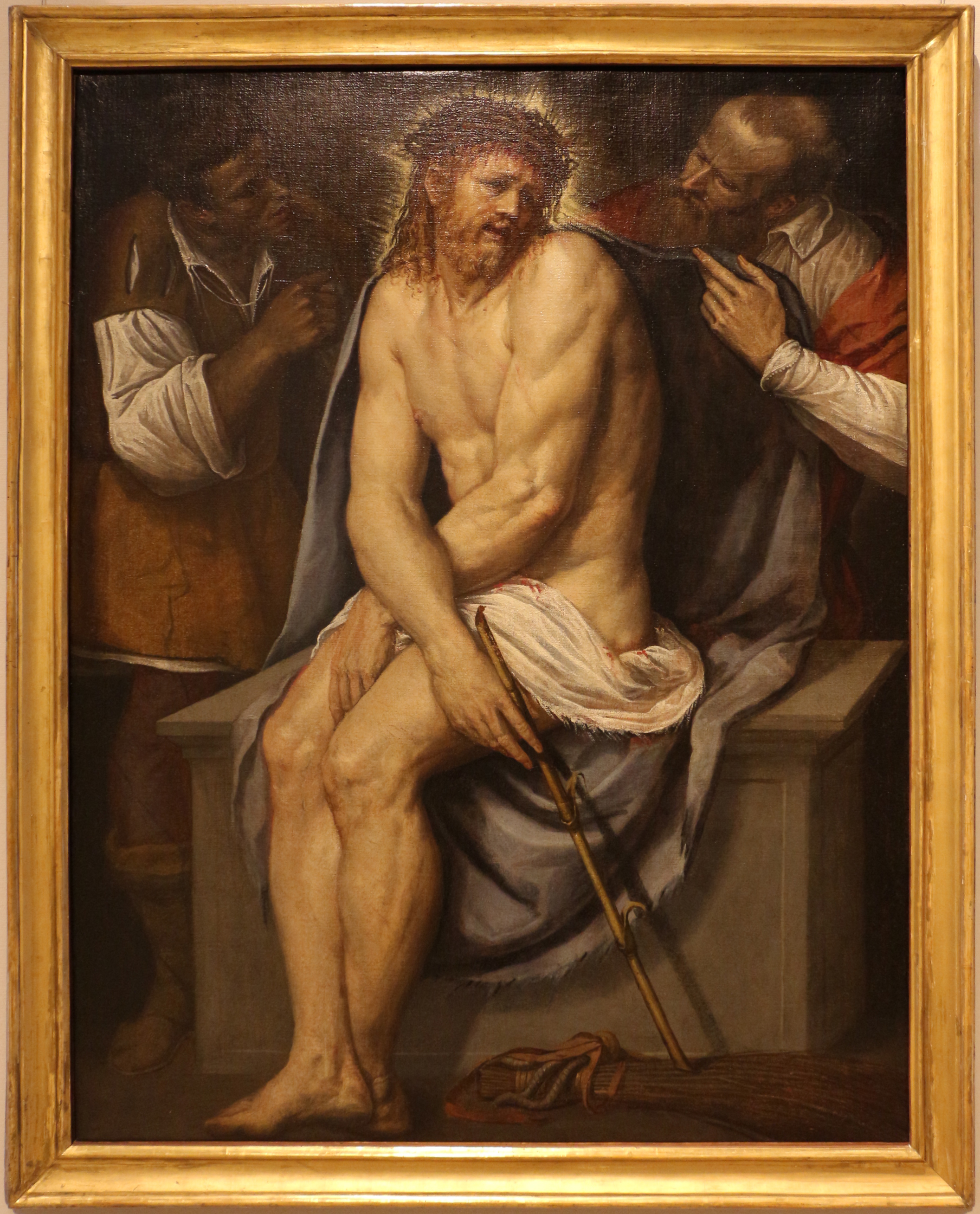 Pinacoteca del Castello Sforzesco